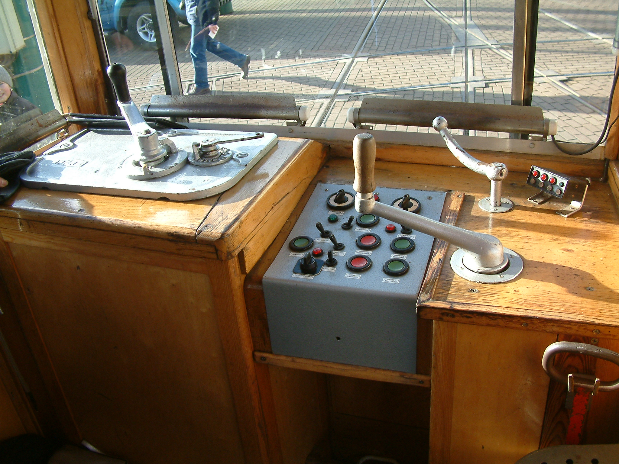 Konstal N rebuild partialy to standard 4N - control panel, Głogowska Depot, Poznań